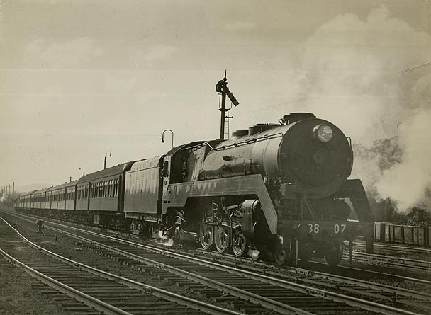 C3807 locomotive 'Riverina Express' at Goulburn Dated: 03/06/1946 Digital ID: 17420_a014_a014000210 Rights: We'd love to hear from you if you use our photos. Many other photos in our collection are available to view and browse on our website using Photo Investigator.